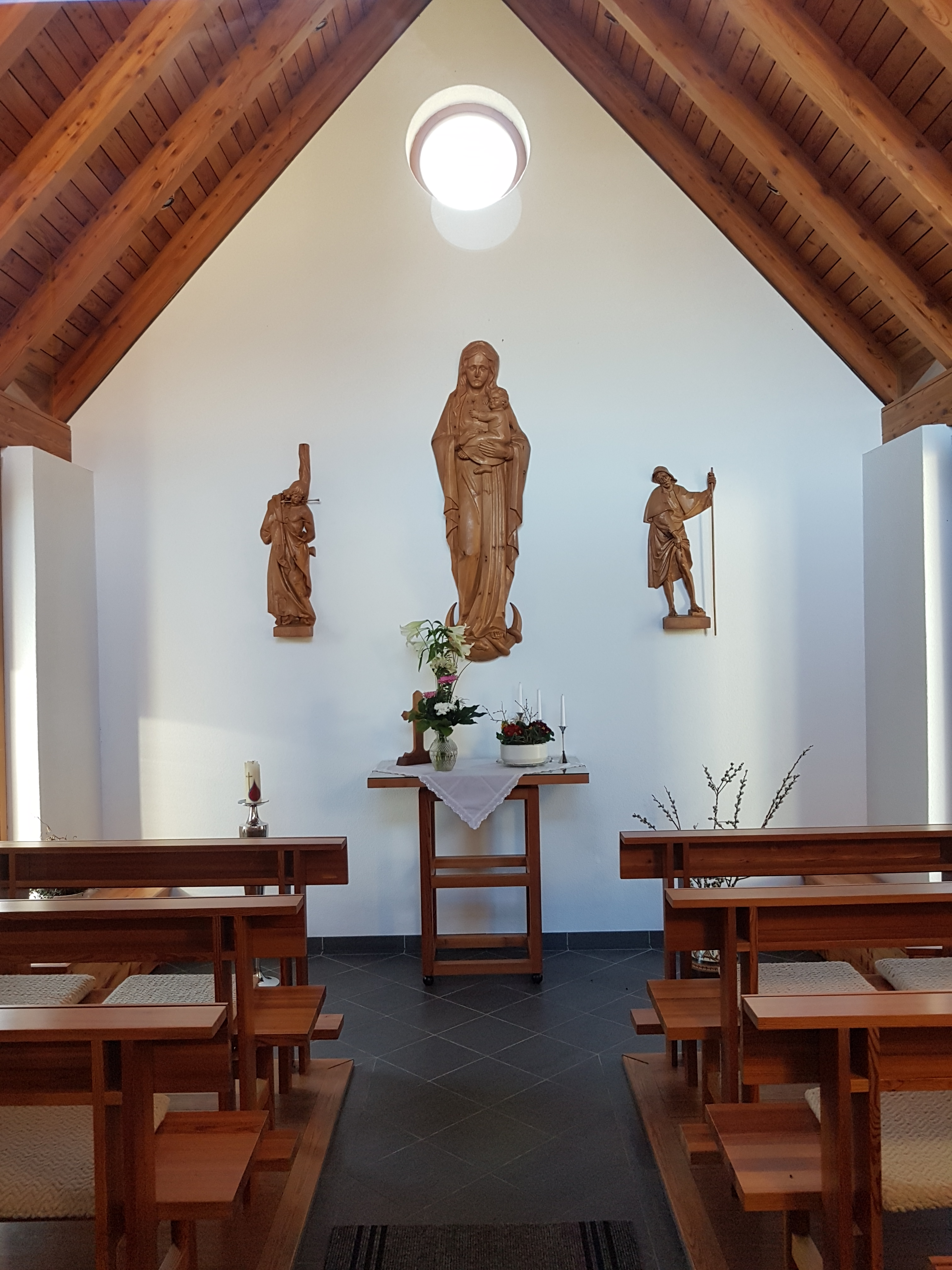 Chapel Klöslefeld in Frastafeders, Frastanz (Vorarlberg, Austria). Built in 1966, renovated in 1999.